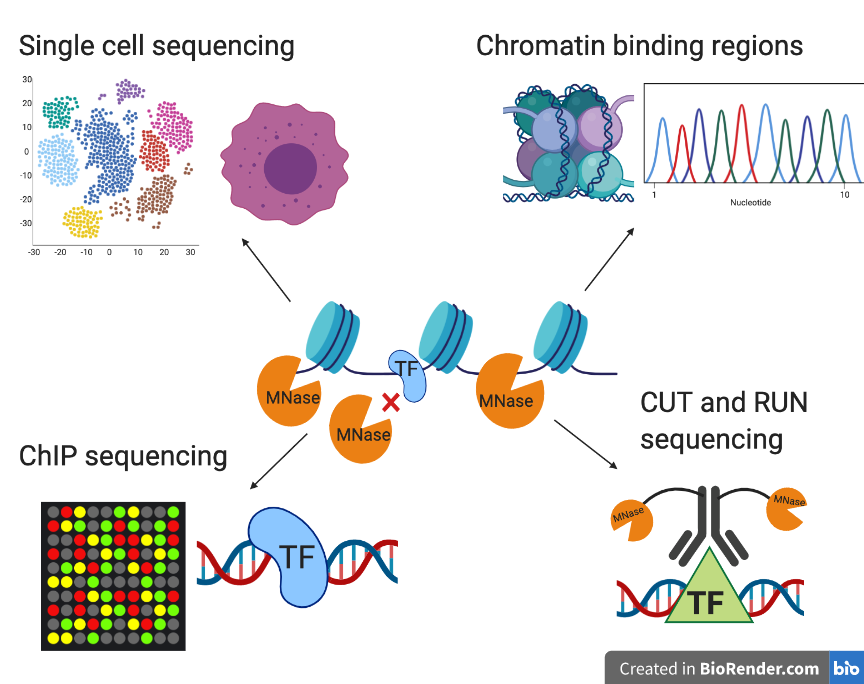 MNASE application